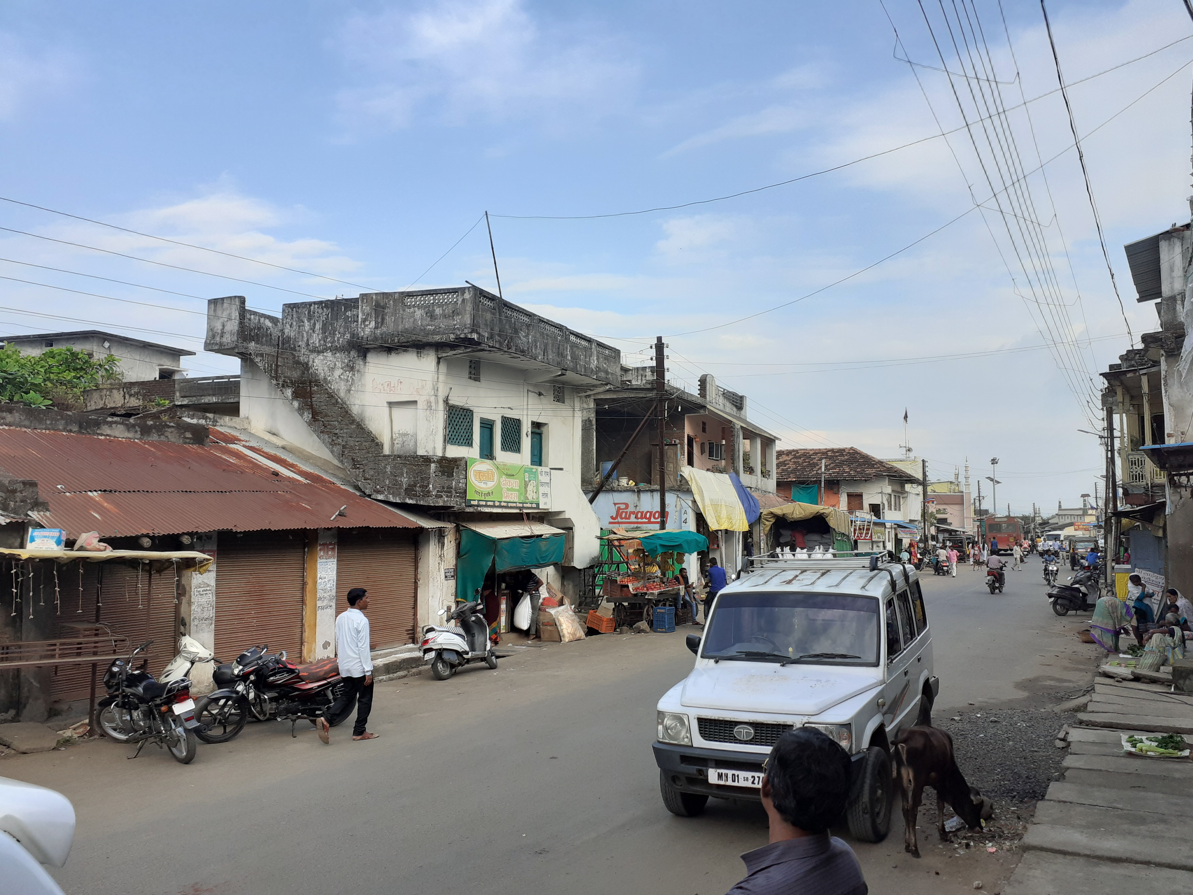 Street view of Aheri town